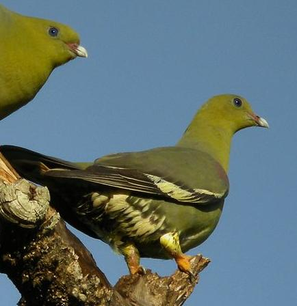 Madagascar Green Pigeon